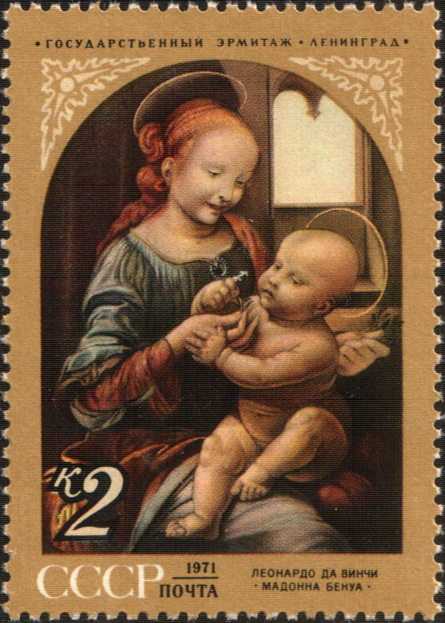 USSR stampː Benois Madonna (Leonardo da Vinci). Seriesː Foreign Paintings in the Soviet Union Museums